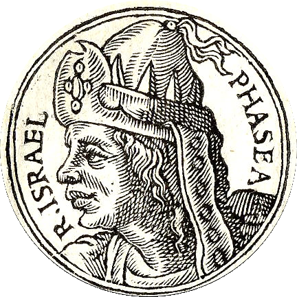 Pekah